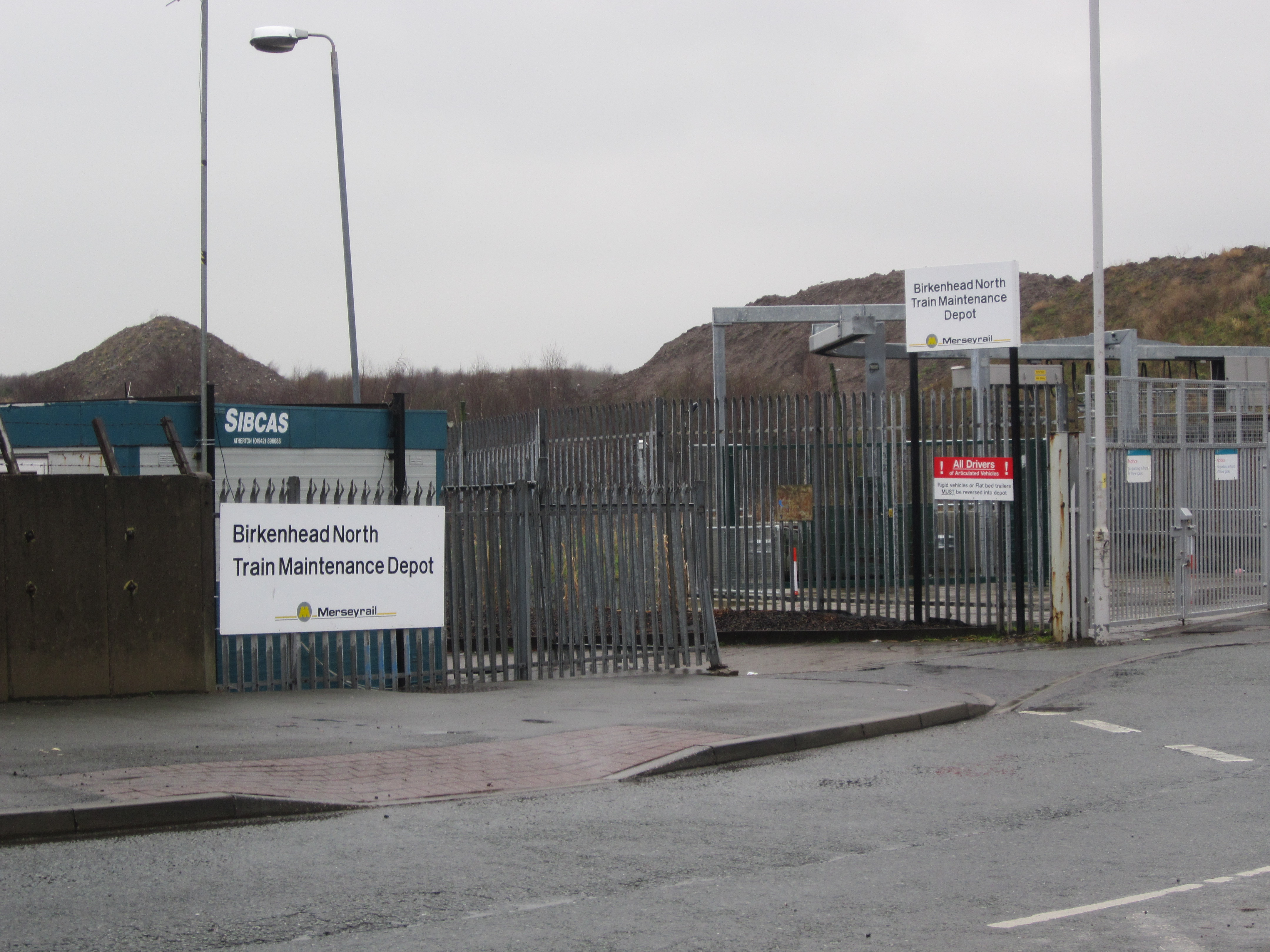 Birkenhead North Train Maintenance Depot, Merseyside, England.